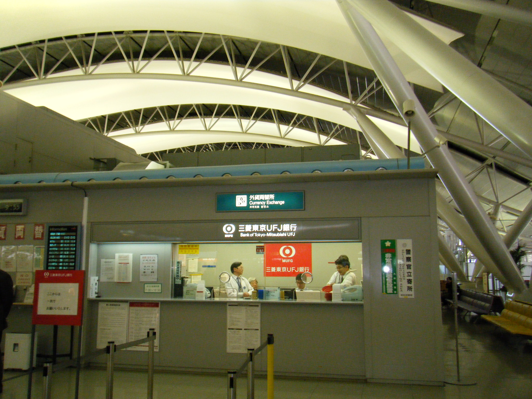 Currency change in Kansai International Airport